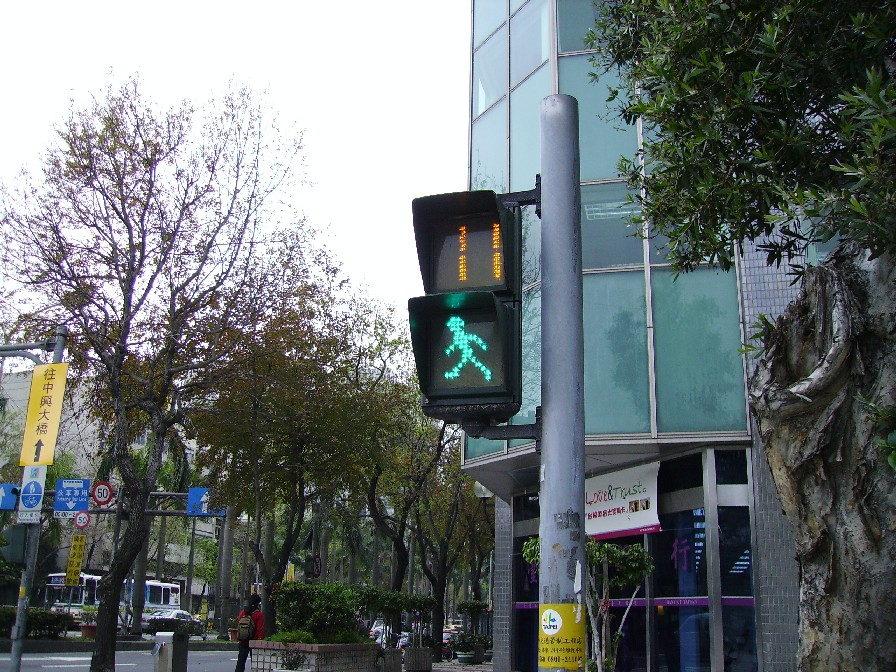 TAIPEI TRAFFIC SIGNALS RUNNING GREENMAN photo by winertai 攝於台灣 會跑的小綠人